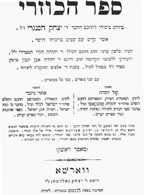 Book cover of a Hebrew language translation of the Kuzari by Judah Halevi. Warsaw, Poland, 1880.